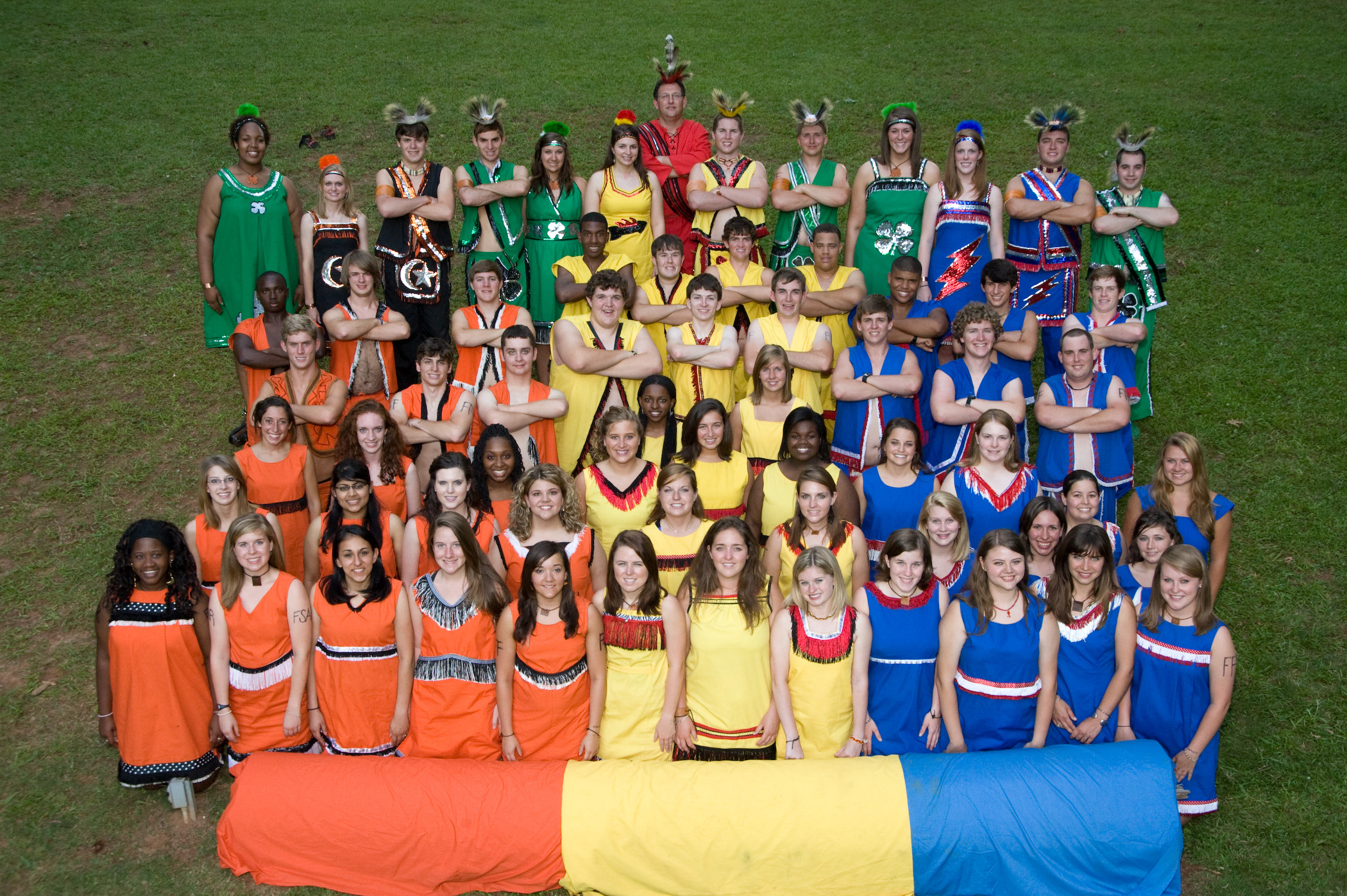 Rock Eagle 4-H Camp Counselors from 2009. The green coloured are Tribal Council. The orange coloured are the Cherokee tribe. The yellow coloured are the Muskogee tribe. The blue coloured are the Shawnee tribe.